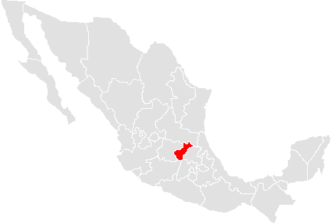 A map of the Mexican state of queretaro made by me